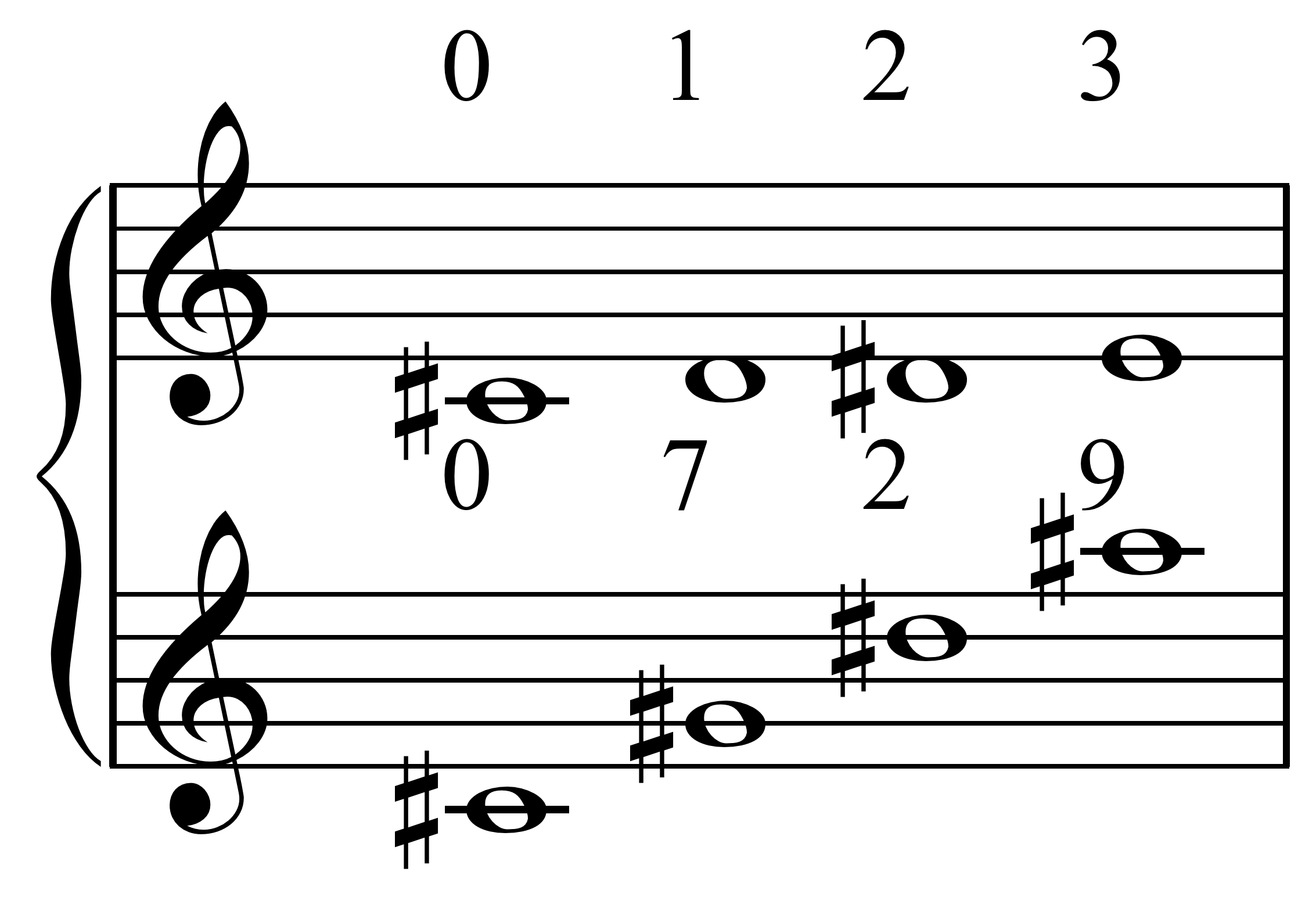 Bartok: Third Quartet tetrachord multiplication.